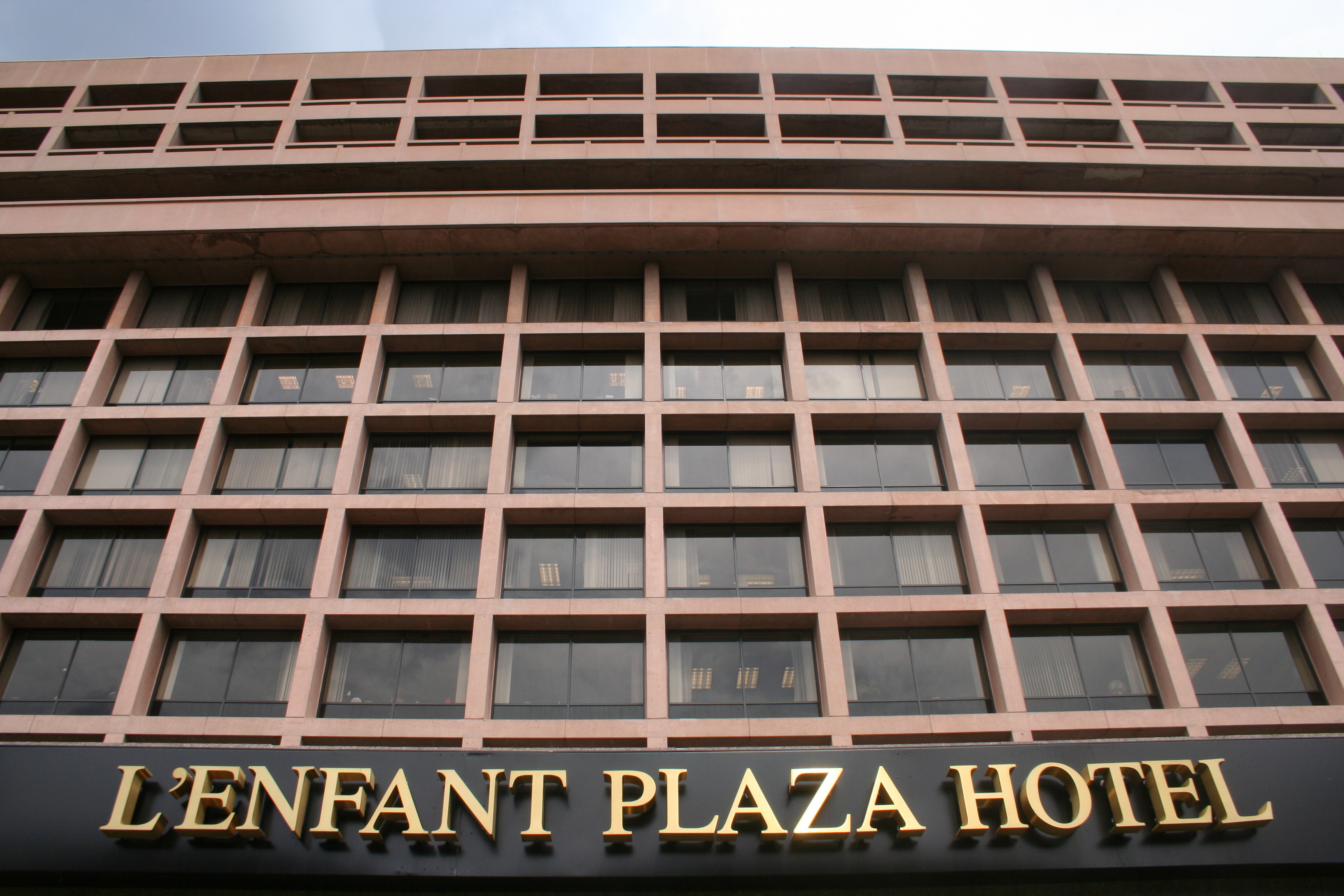 L'Enfant Plaza Hotel located at 480 L'Enfant Plaza, SW in Washington, D.C. The building was designed by Vlastimil Koubek and is an example of Brutalist architecture.